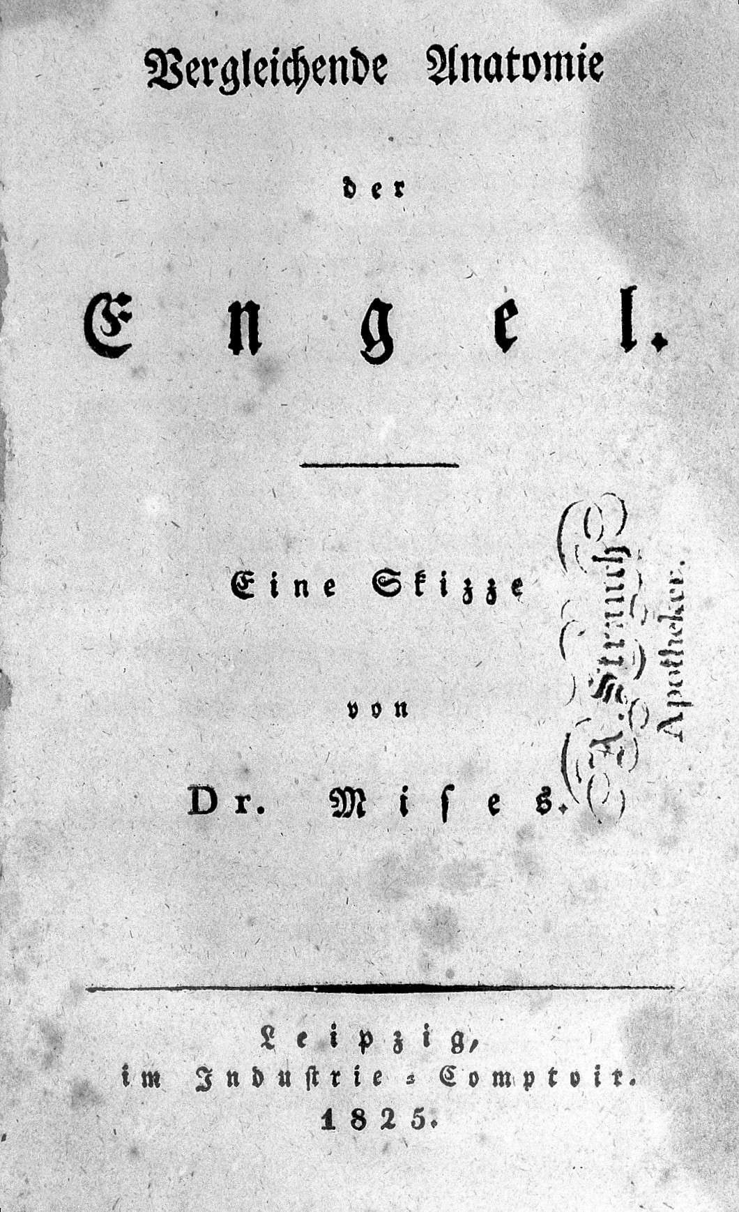 title page. Rare Books Keywords: anatomy, angels; Angels; Anatomy, Comparative; Gustav Theodor Fechner